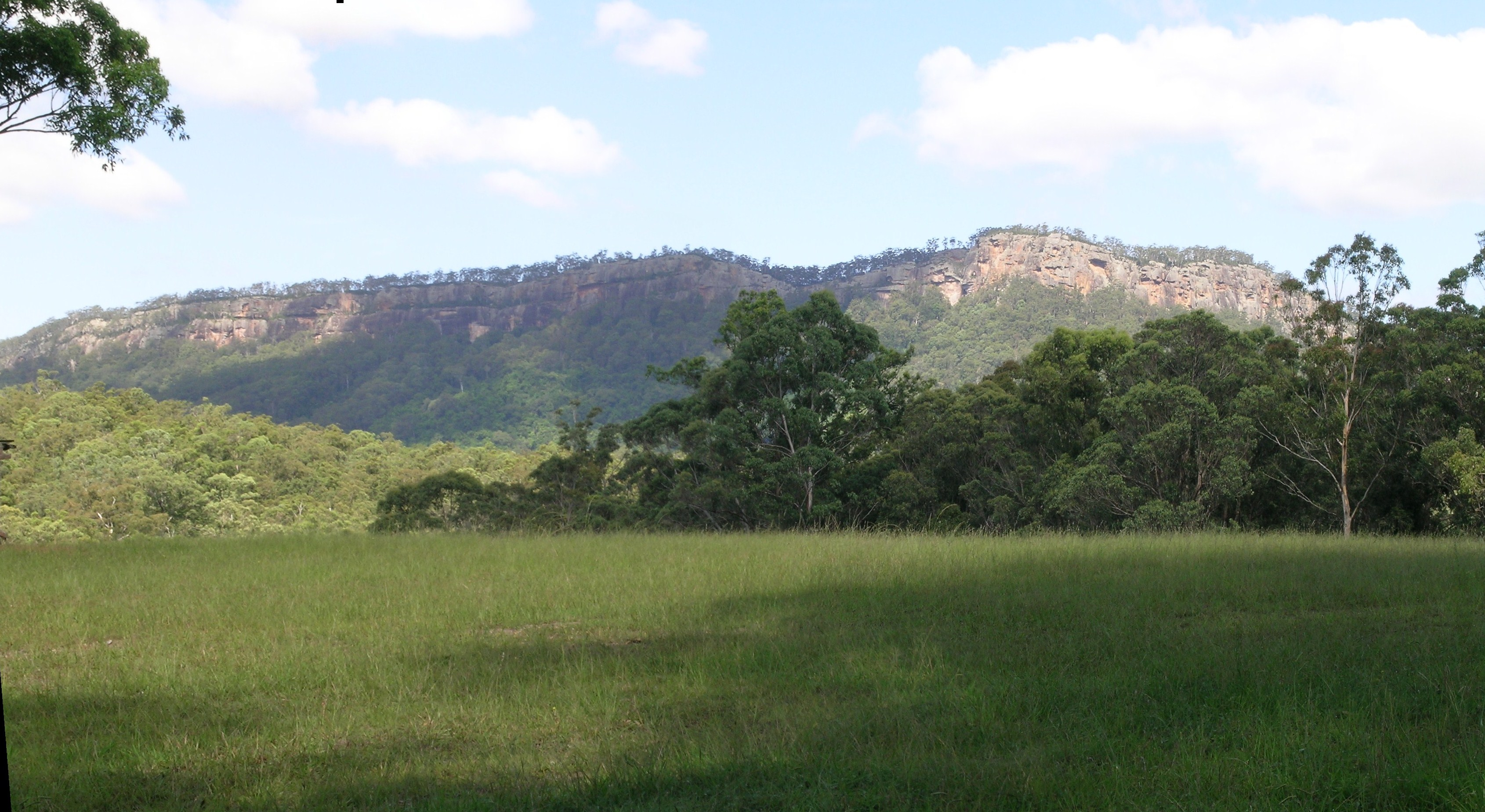 Bago Bluff, Bago Bluff National Park, Wauchope, NSW. Photographed from the Oxley Highway.